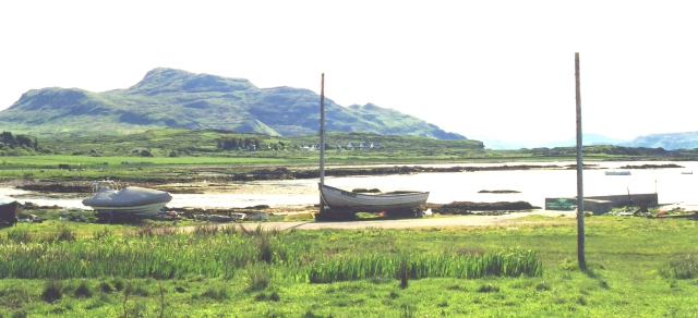 Kilchoan. Ben Hiant rises beyond the boats drawn up on the shore at Kilchoan